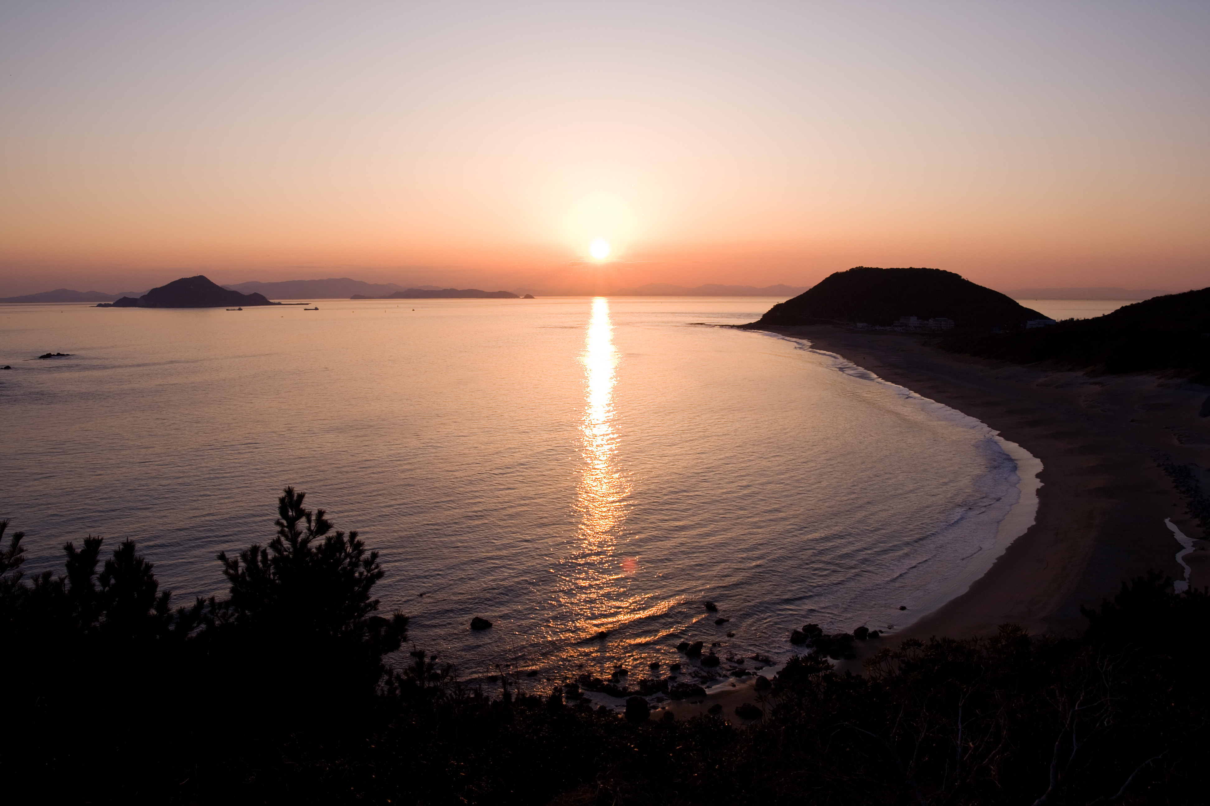 Irago Cape, Aichi Pref., Japan.